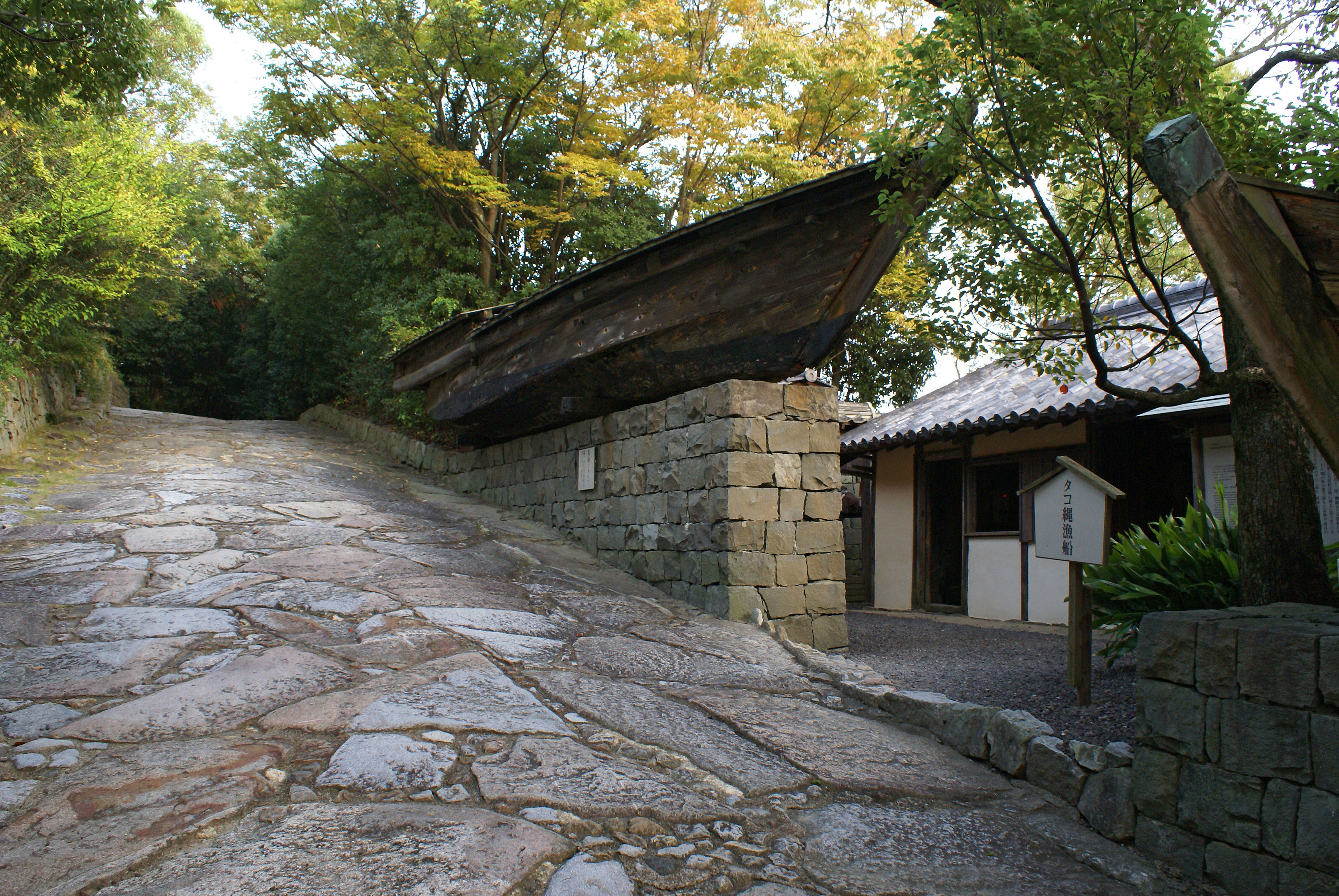 Shikokumura in Takamatsu Kagawa prefecture, Japan